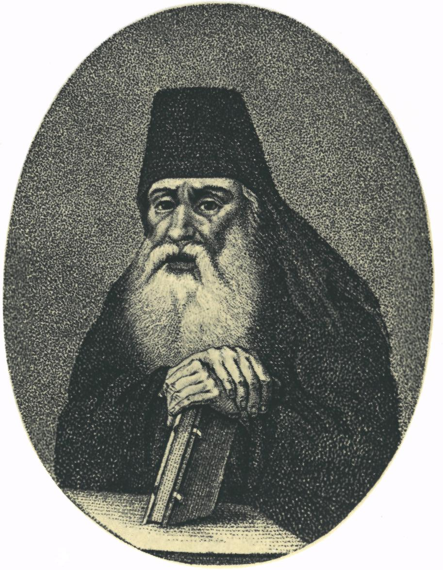 Simeon of Polotsk